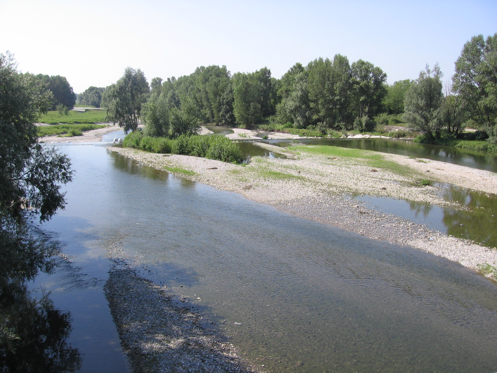 Serio River, Ghisalba (Bergamo), Italy